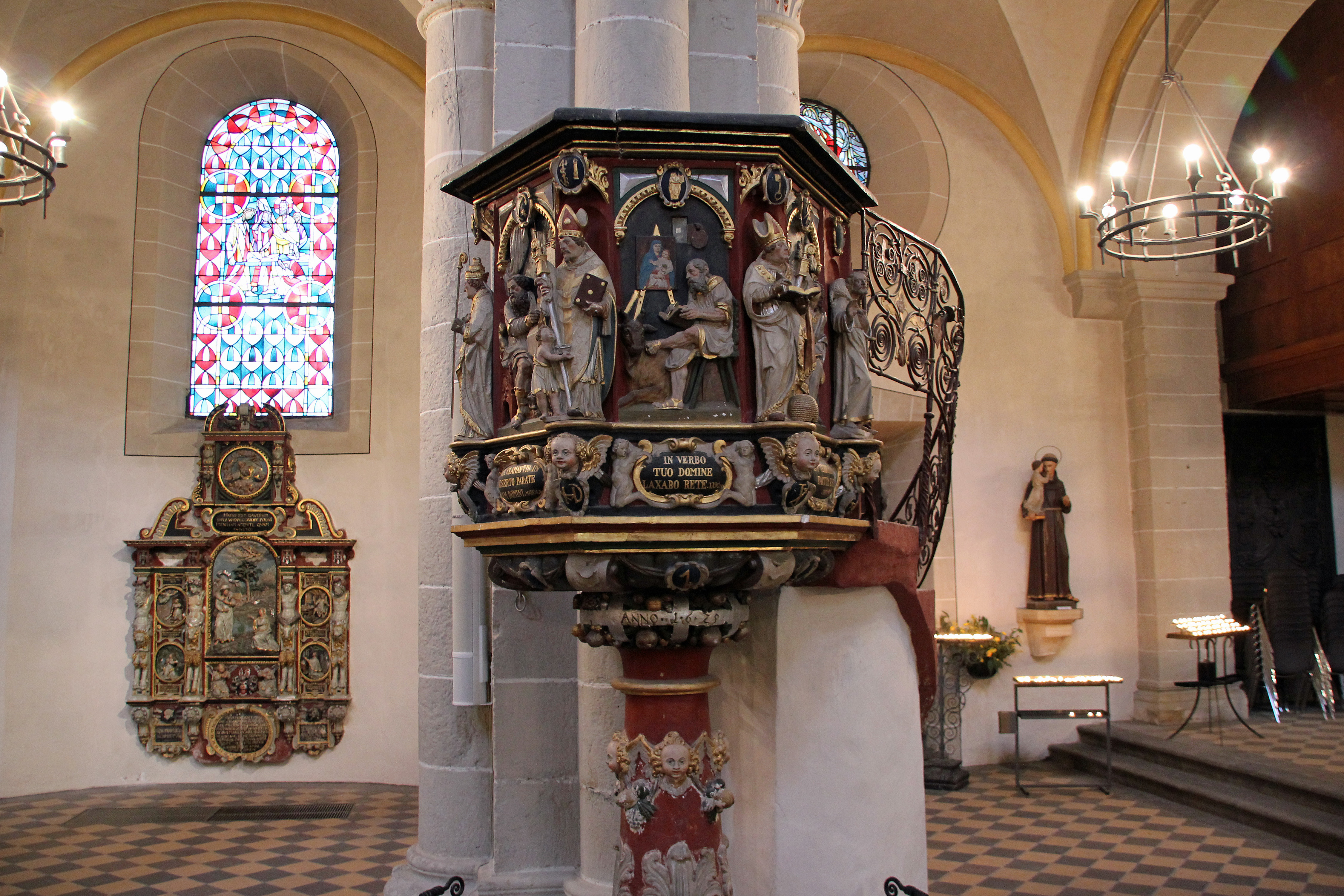 Basilica of St. Castor in Koblenz